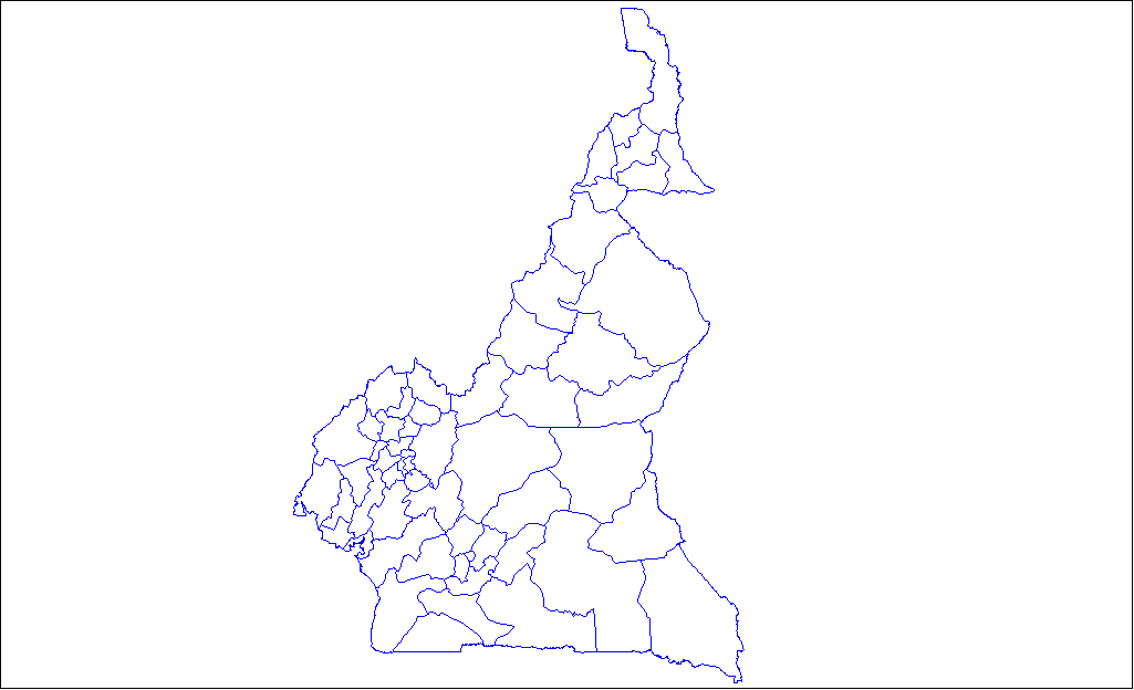 This map has been uploaded by Electionworld from to enable the Wikimedia Atlas of the World . Original uploader to was Rarelibra, known as Rarelibra at . Electionworld is not the creator of this map. Licensing information is below. Map of the departments (départements) of Cameroon. Created by Rarelibra 18:03, 31 March 2006 (UTC) for public domain use. Created using MapInfo Professional v7.5 and various mapping resources.